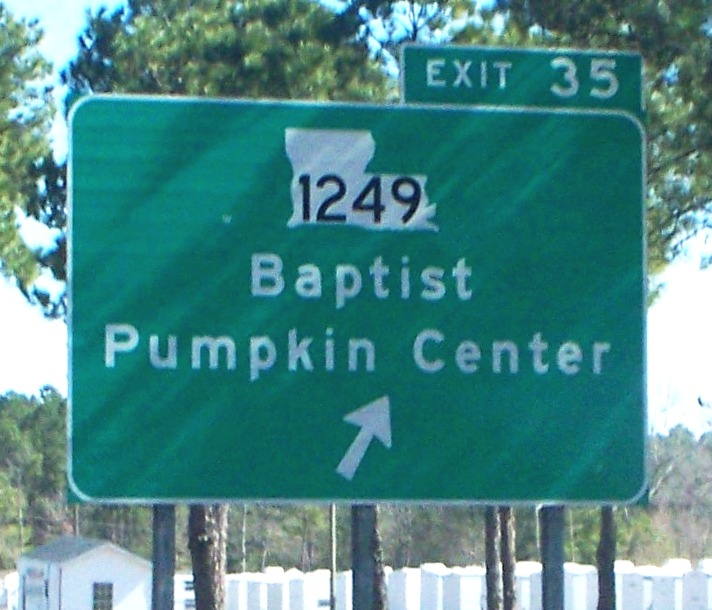 LA 1249 exit sign on I-12 eastbound